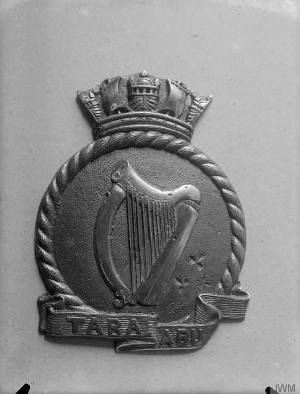 Collections of the Imperial War Museum Ship badge of HMS Tara.